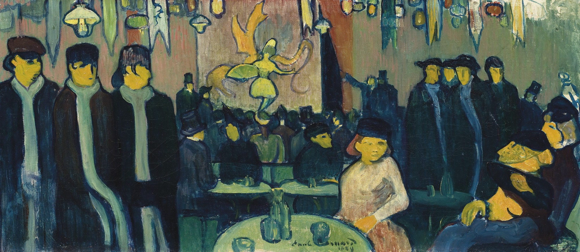 Le Tabarin ou Cabaret à Paris or At Le Tabarin